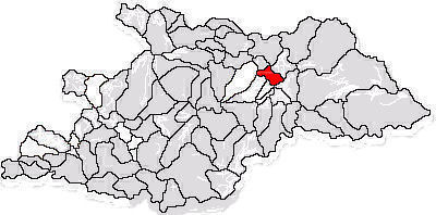 Map of Leordina commune in Maramureş